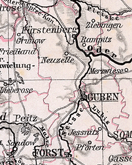 Detail from a map of Brandenburg.